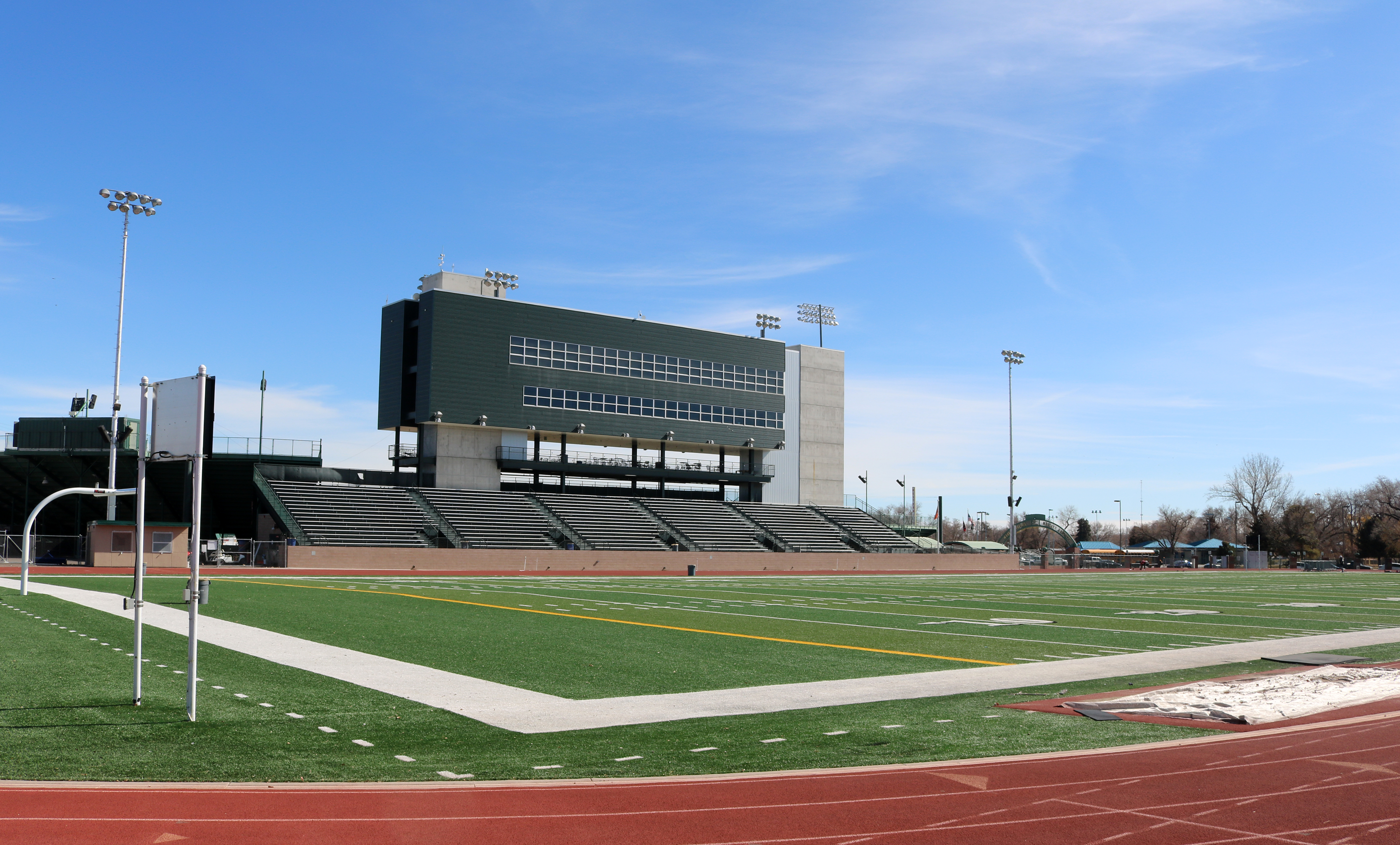 Ralph Stocker Stadium, located at 998 North 12th Street in Grand Junction, Colorado. The stadium is used for college, high school, and semi-pro football and for other sports as well.